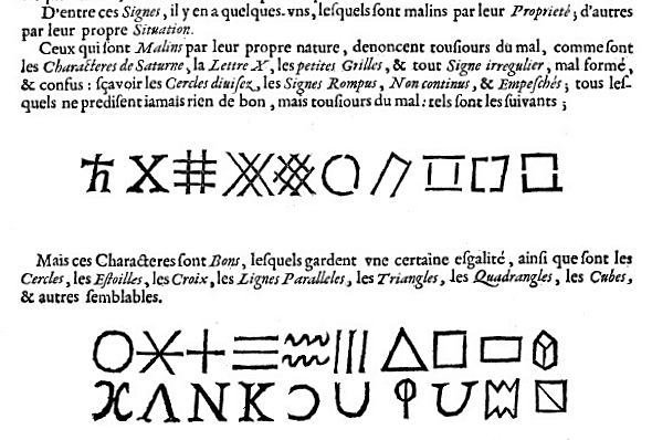 Main signs associated with forehead lines by metoposcopy.